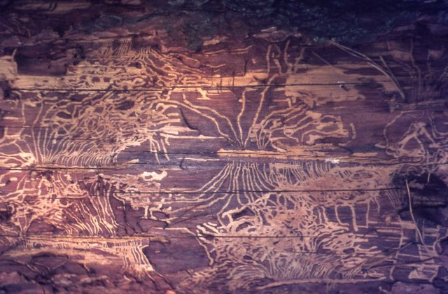 Bark beetle galleries Galleries formed by the larvae of the conifer bark beetle [Tomicus minor]. The female lays her eggs under the bark of a conifer [in this case pine] and the larvae, as they emerge, eat their way away from the laying point, to leave the characteristic pattern when the bark finally falls off. These beetles are scolytids, as are those that transmit dutch-elm disease.